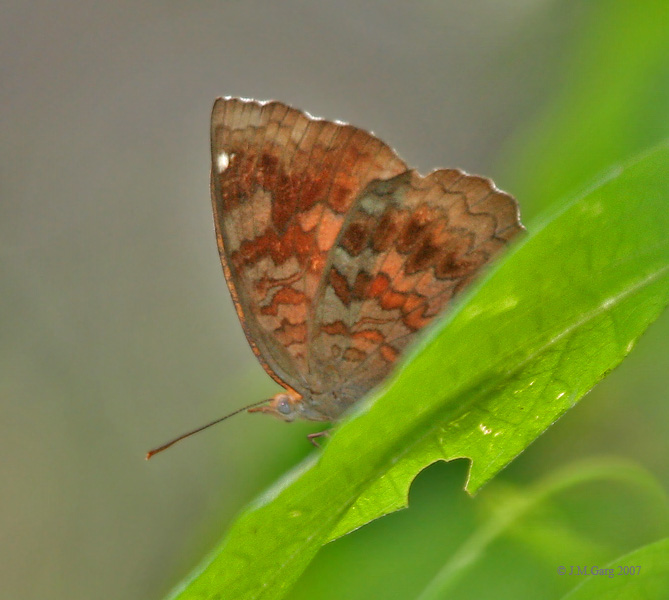 Common Castor (Ariadne merione) in Kolkata, West Bengal, India.